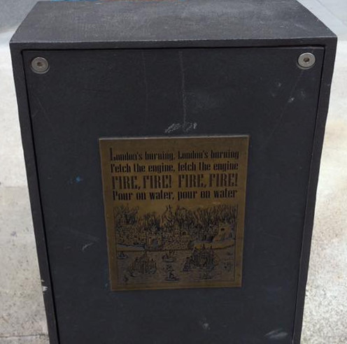 Rear view of a drinking fountain opposite the Monument to the Great Fire of London, showing the nursery rhyme "London's Burning"